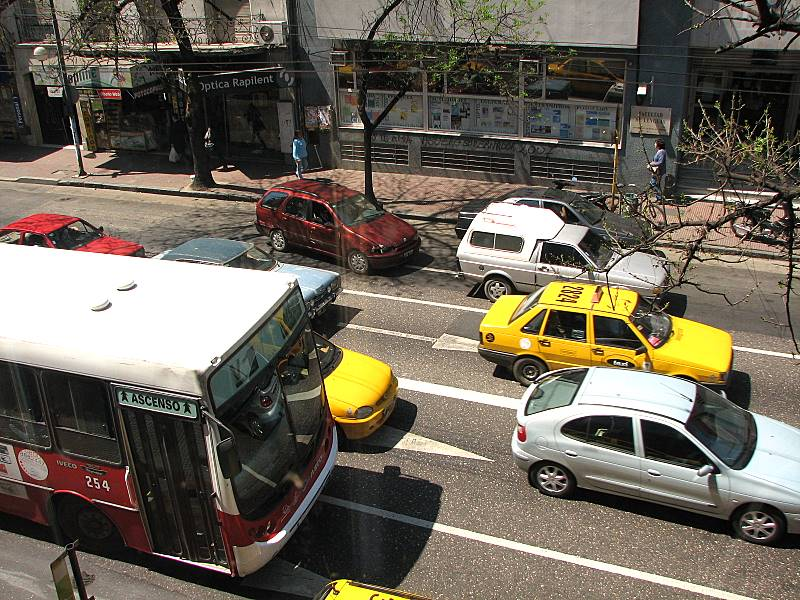 Metalpar bus (#254) with Iveco chassis on line V1 in Córdoba, Argentina.